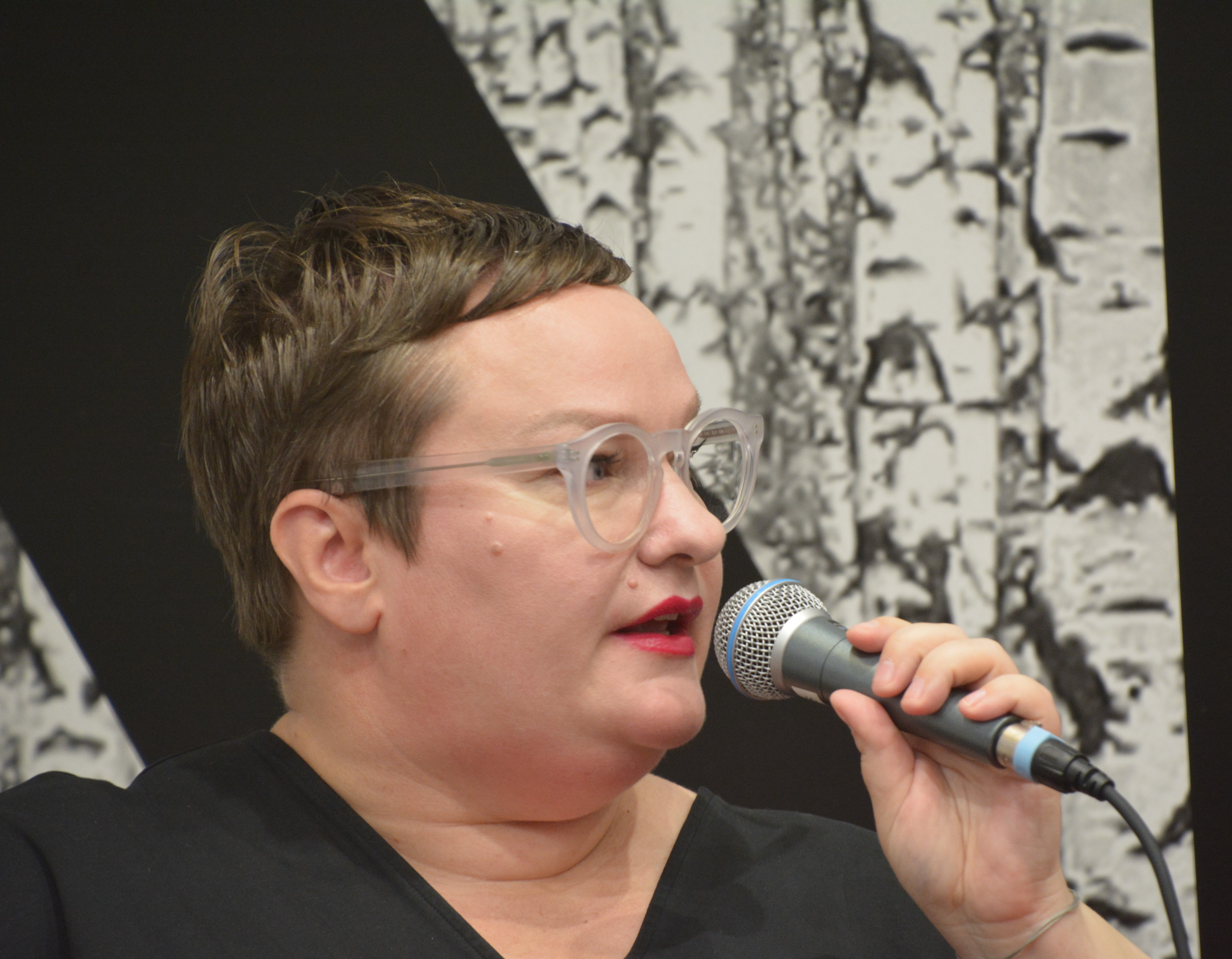 Sanna Tahvanainen at Göteborg Bollk Fair 2019